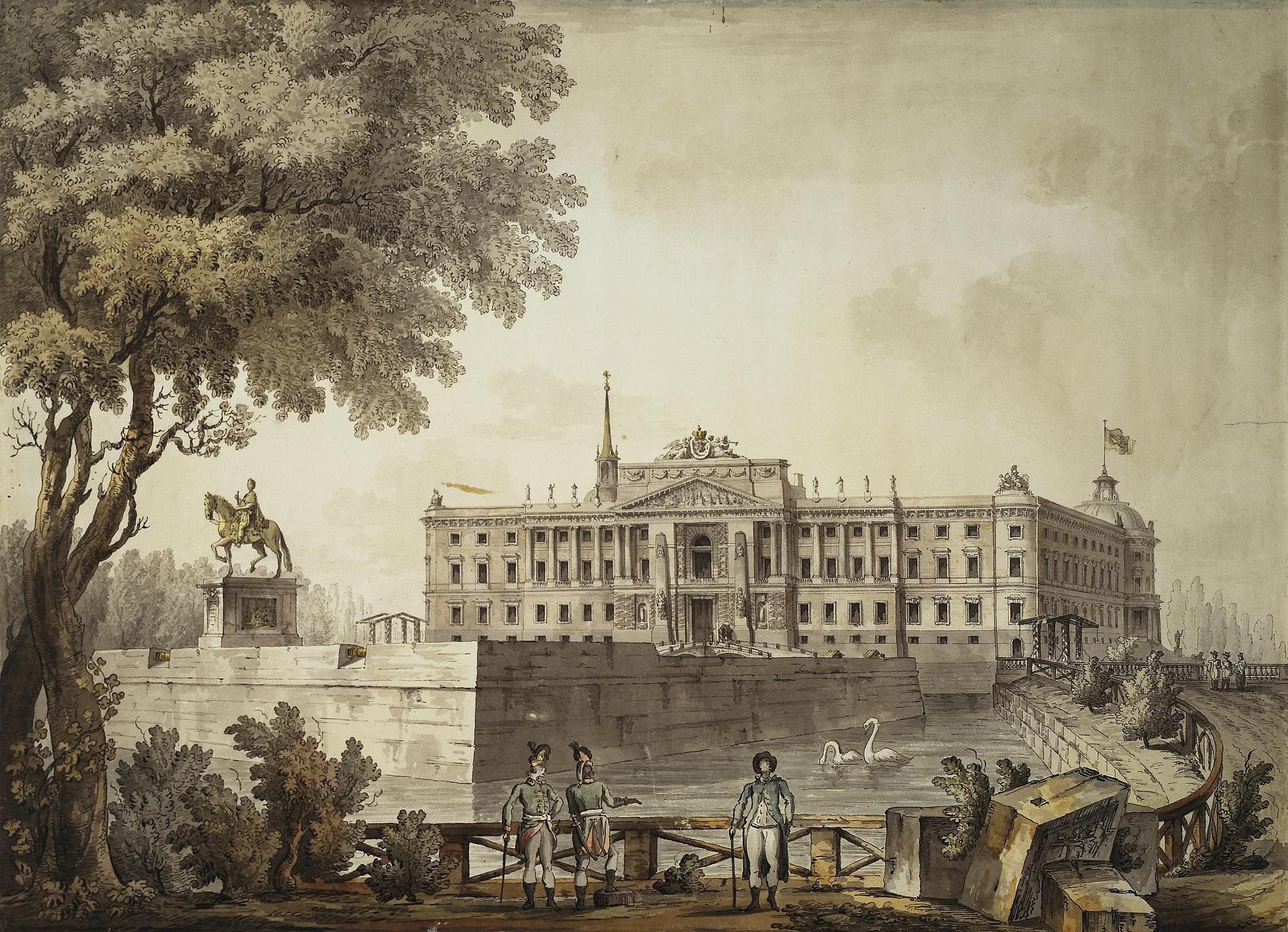 View of St. Michael's Palace by Giacomo Quarenghi. Watercolor, ink, pen-and-ink line. 46 x 63.3 cm. The Hermitage, St. Petersburg, Russia.